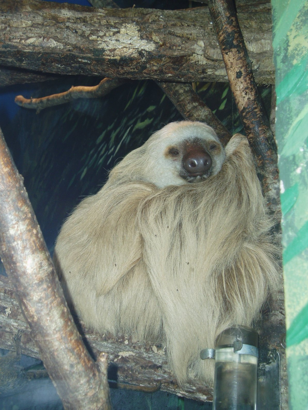 Choloepus hoffmanni